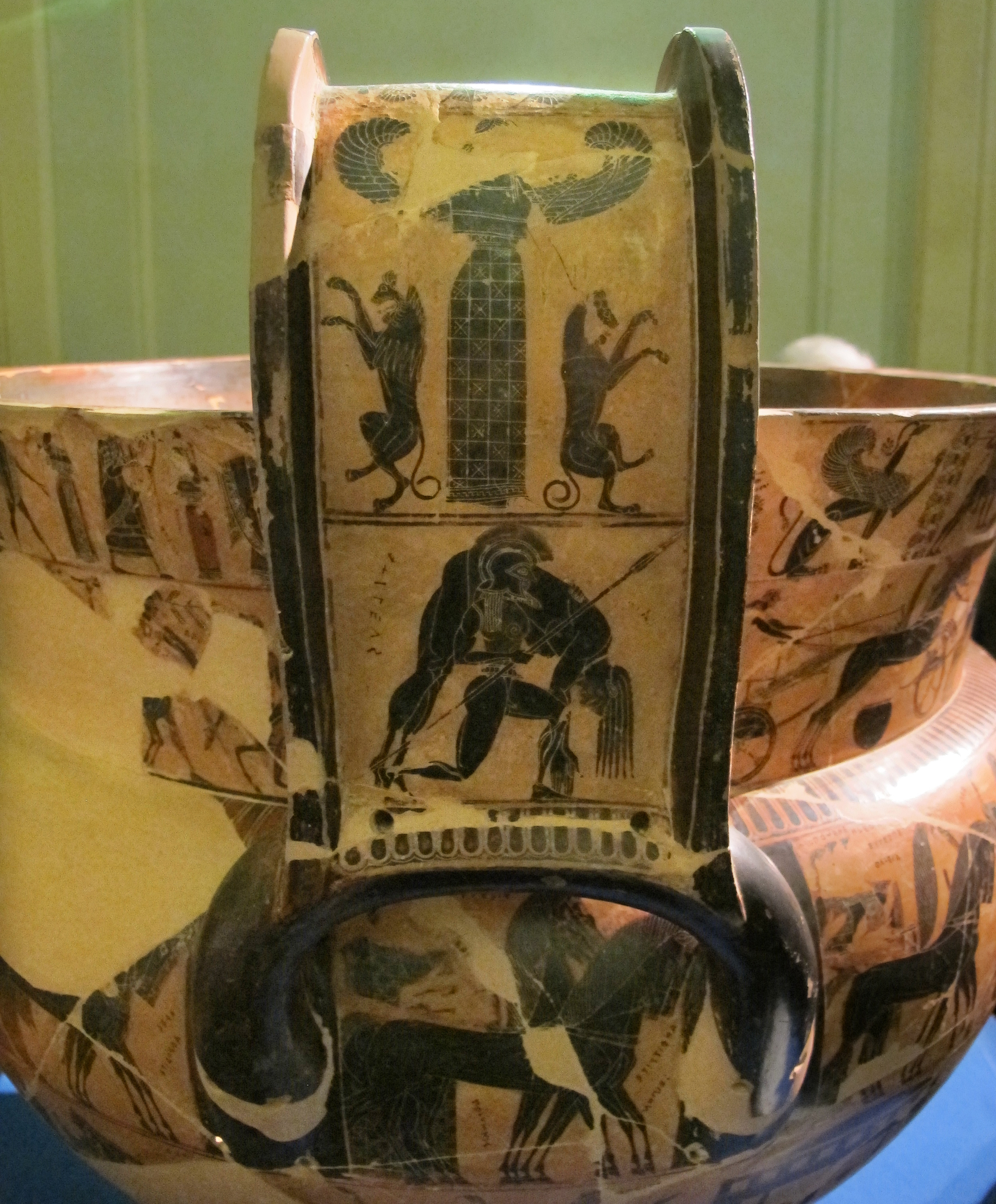 François vase